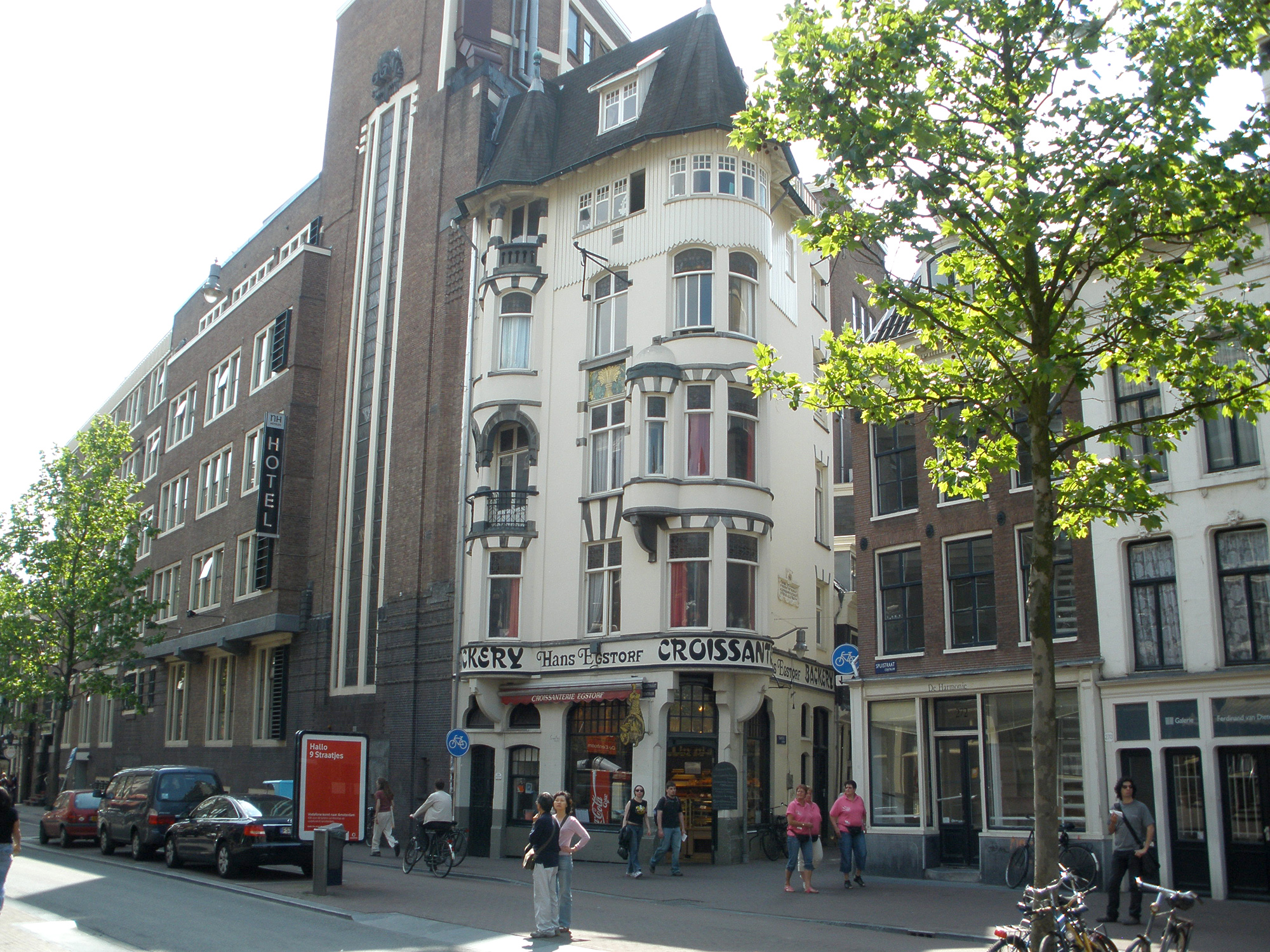 The bakery of D.C. Stähle on the Spuistraat in Amsterdam, designed by Jugendstil architect Gerrit van Arkel in 1898.